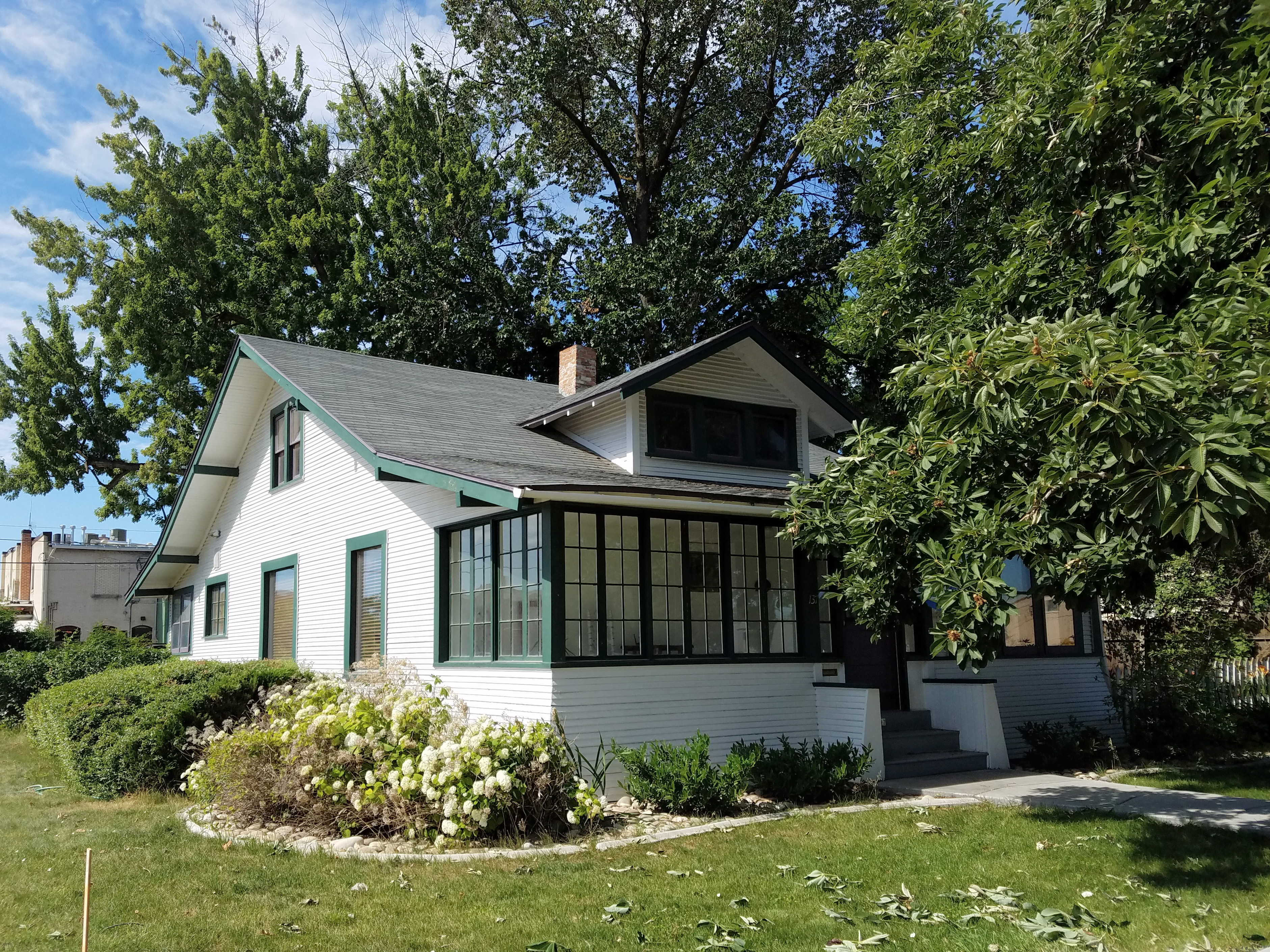 The R. H. and Jessie Bell House in Meridian, Idaho, is a Craftsman style bungalow built in 1922 and is listed on the National Register of Historic Places.